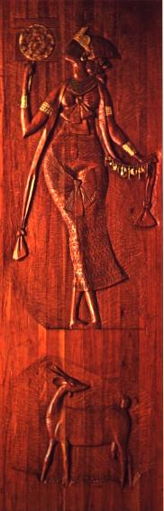 Oxum - sculpture of Carybé in wood, exibit in the Museum Afro-Brazilian, Salvador, Bahia, Brasil